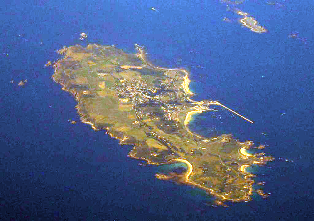 Original Reworked version of Image:Alderney_aerial.jpg by Marcela Original-Description: (Uploaded by User:Smb1001) An aerial shot of the islands of Alderney (centre) and Burhou (upper right) in the Channel Islands. I took the image on Sunday August 21, 2005 during a commercial flight between London Stansted and La Rochelle.